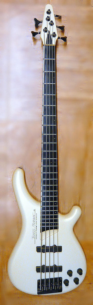 5 strings bass guitar TUNE BASS MANIAC